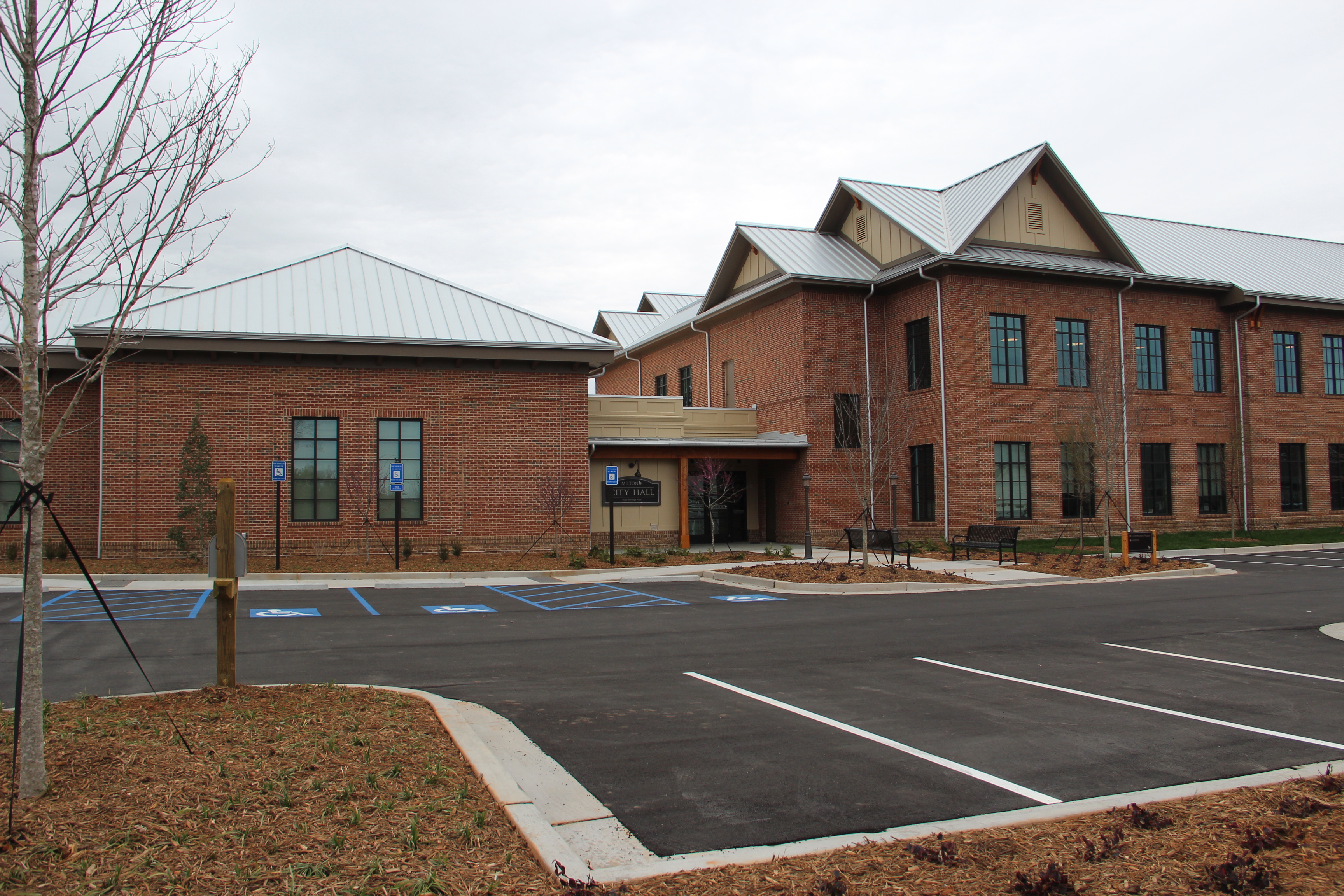 Milton, Georgia City Hall